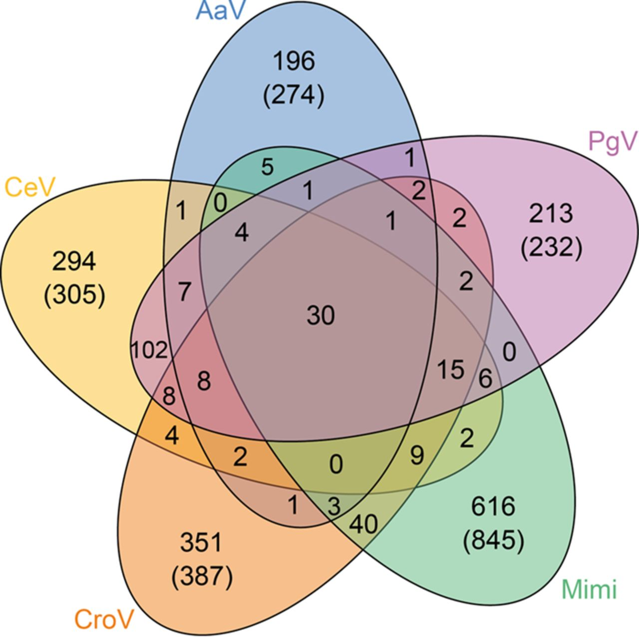 Venn diagram indicating the global proximity in gene content of CeV, its two closest relatives, PgV and AaV, and one member of each genus of the family Mimiviridae (Cafeteriavirus genus, CroV; Mimivirus genus, Mimi). The numbers in parentheses correspond to the raw number of encoded proteins without a homolog in the four other viruses. The numbers without parentheses indicate how many distinct clusters they constitute. The analysis was driven using OrthoMCL software, with a 10−5 E-value threshold and 1.5-mcl inflation parameter.